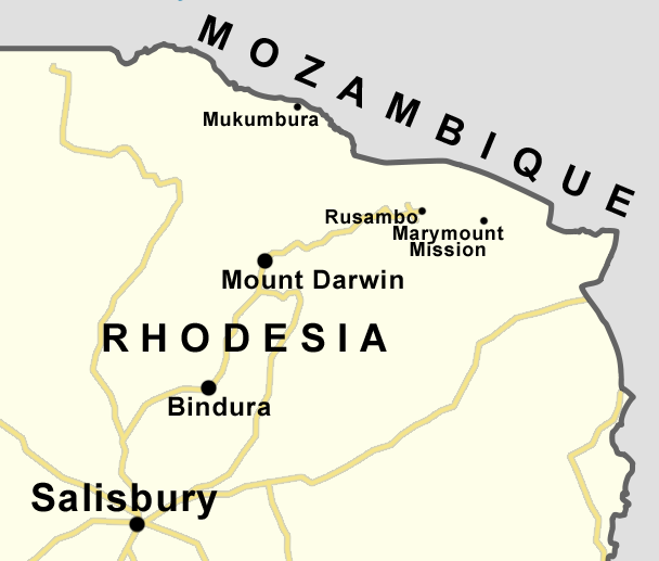 Map of area covered by 7 Independent Company of the Rhodesian Army while on Operation Hurricane in 1977 and 1978, giving roads, locations of garrisons, etc